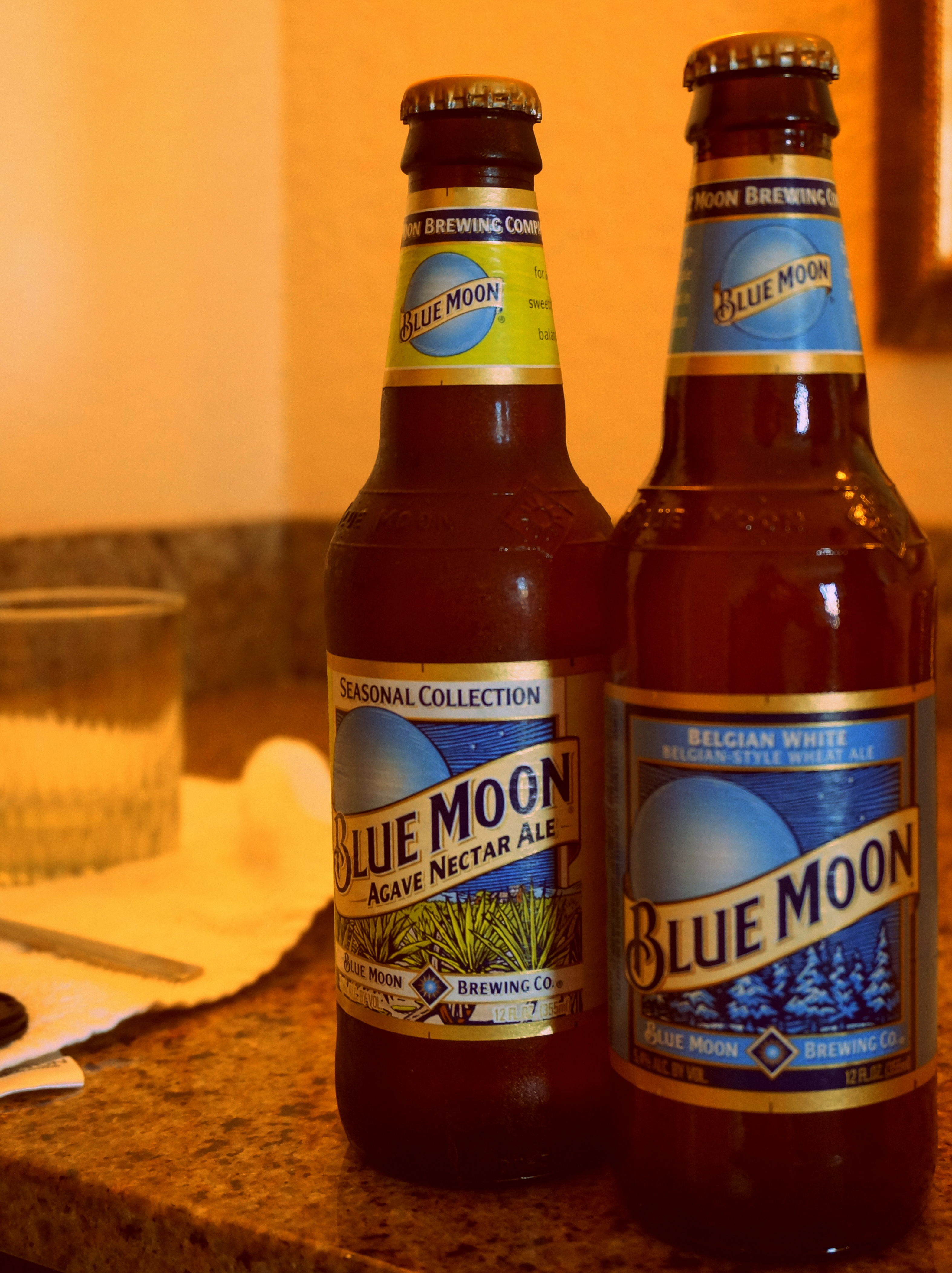 Blue Moon Belgian Style Ale and Blue Moon Agave Nectar Ale More freely usable pictures related to spirits, beer, distilling etc.